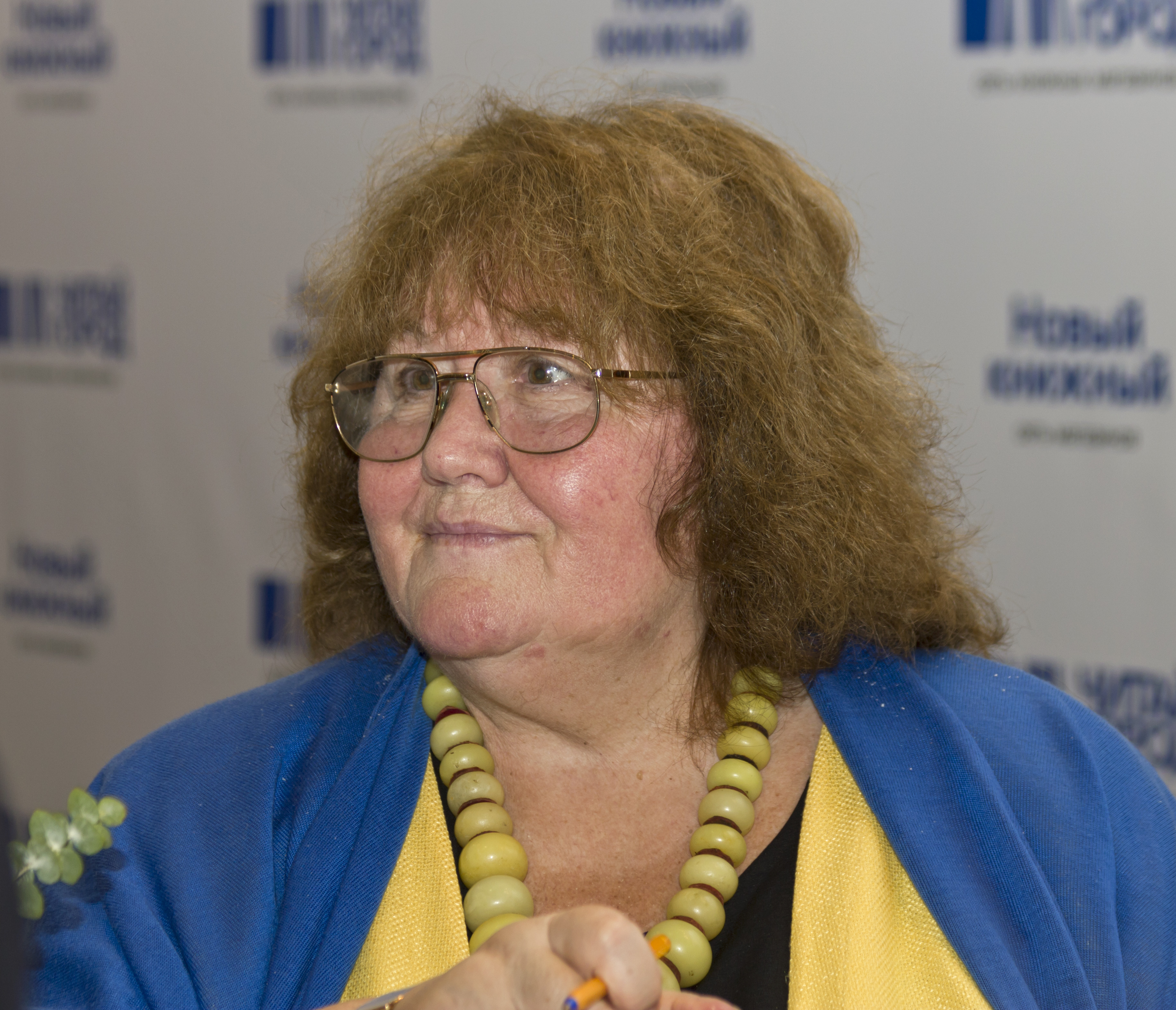 Viktoriya Tokareva, Russian novelist. Taken at Moscow International Book Fair 2013.